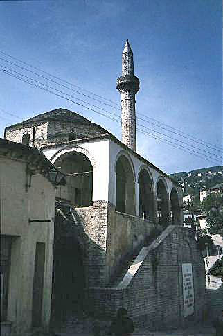 Bazaar Mosque in Gjirokastër.